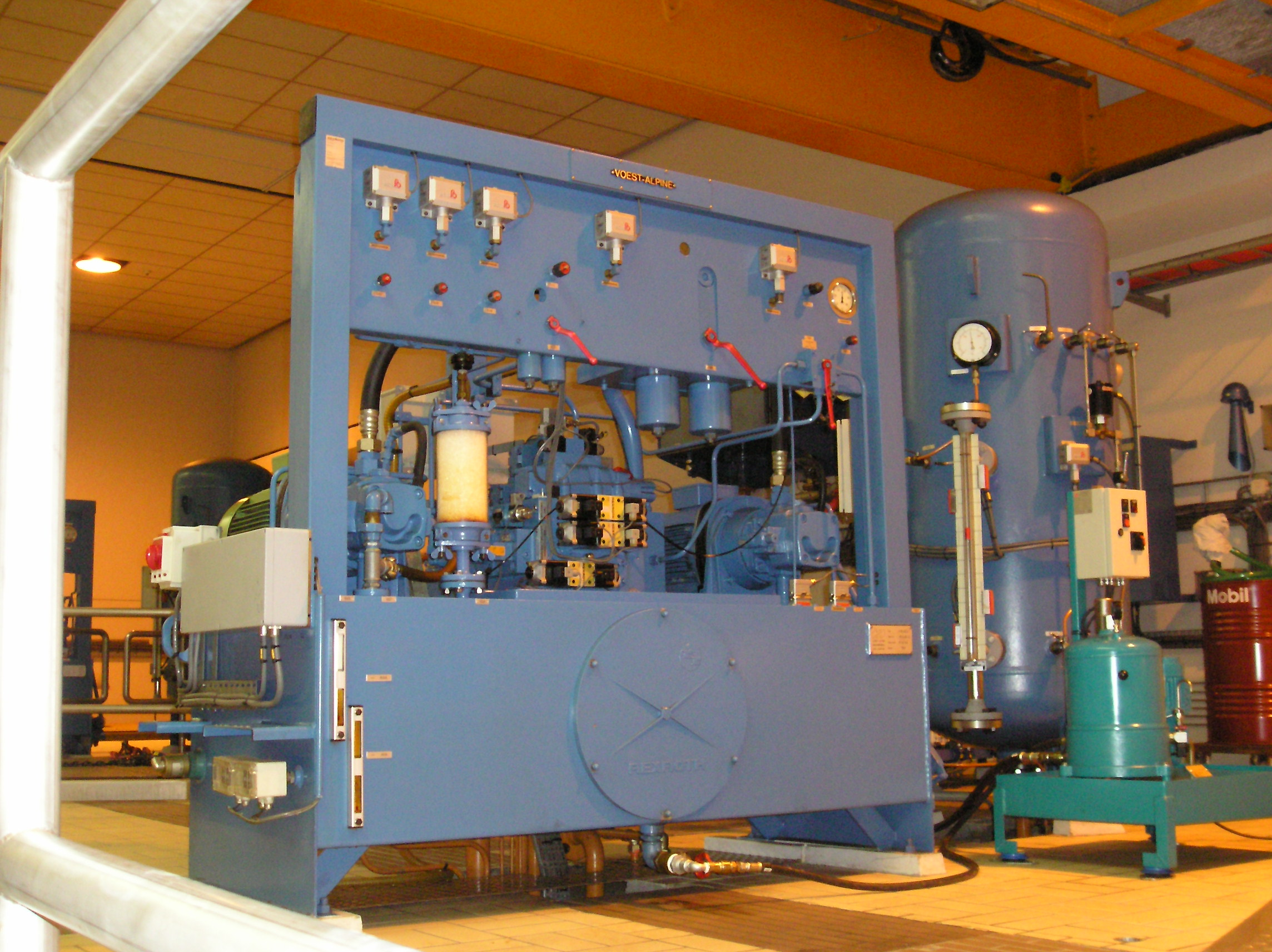 Hydrocentrale (Amerongen)